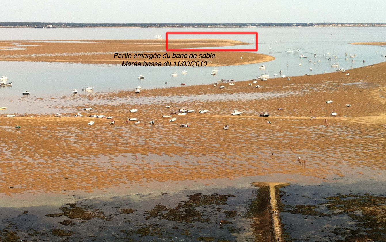 The Cordouan island viewed from Cordouan Lighthouse